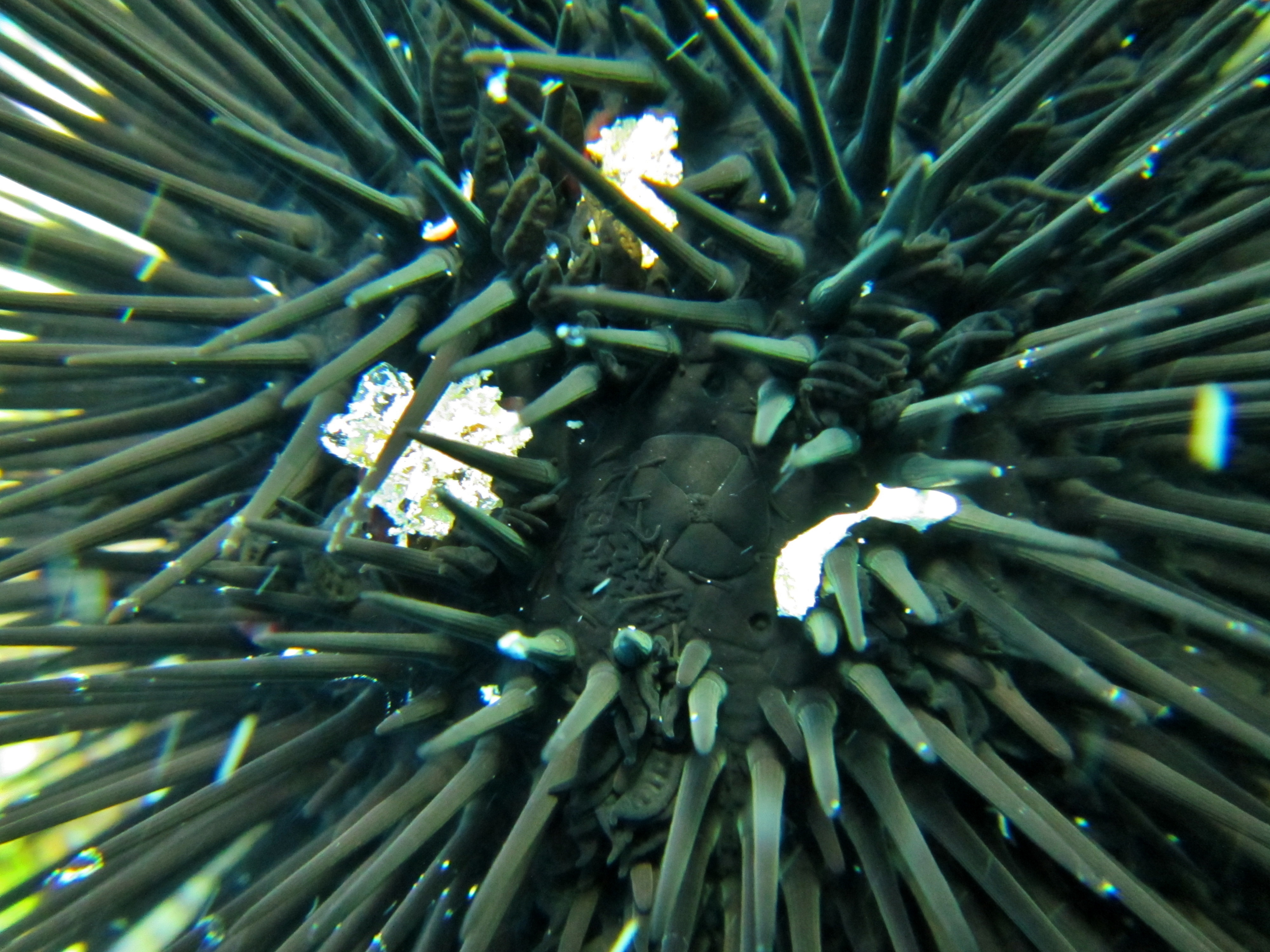 Close-up on the apical system of a live Arbacia lixula (Mediterranean : Banyuls-sur-mer, France).